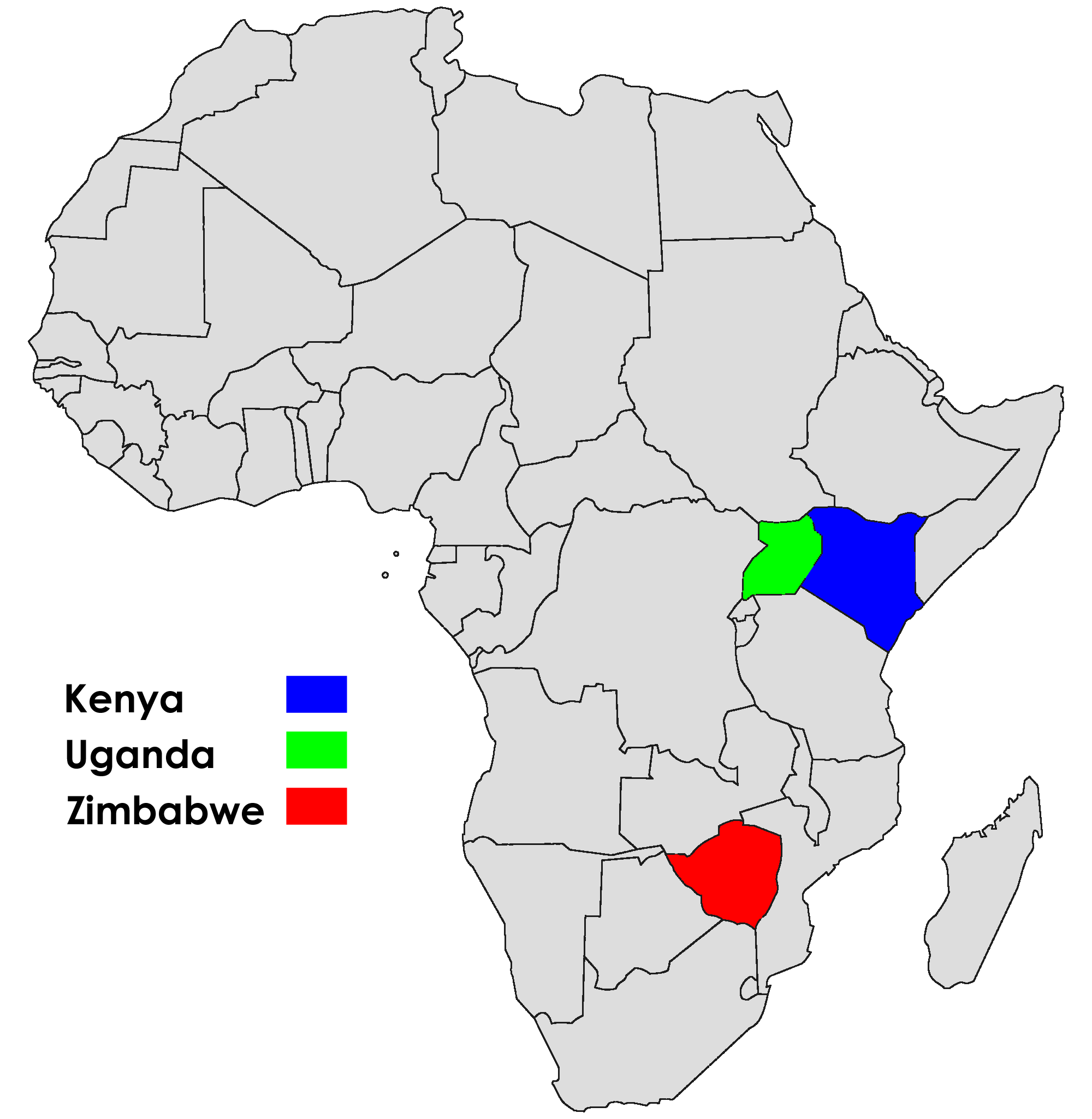 Victoria Cup Countries